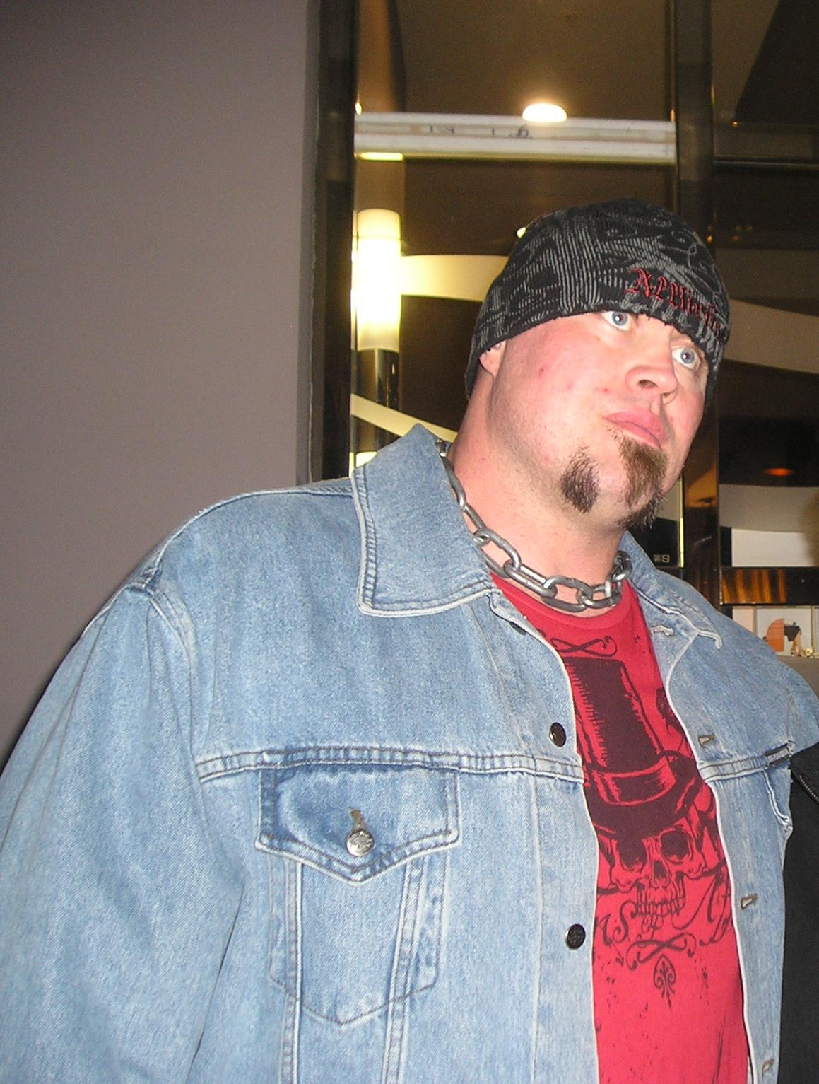 This is a picture of Gene Snitsky in Belfast, Northern Ireland for the Wrestlemania Revenge tour.